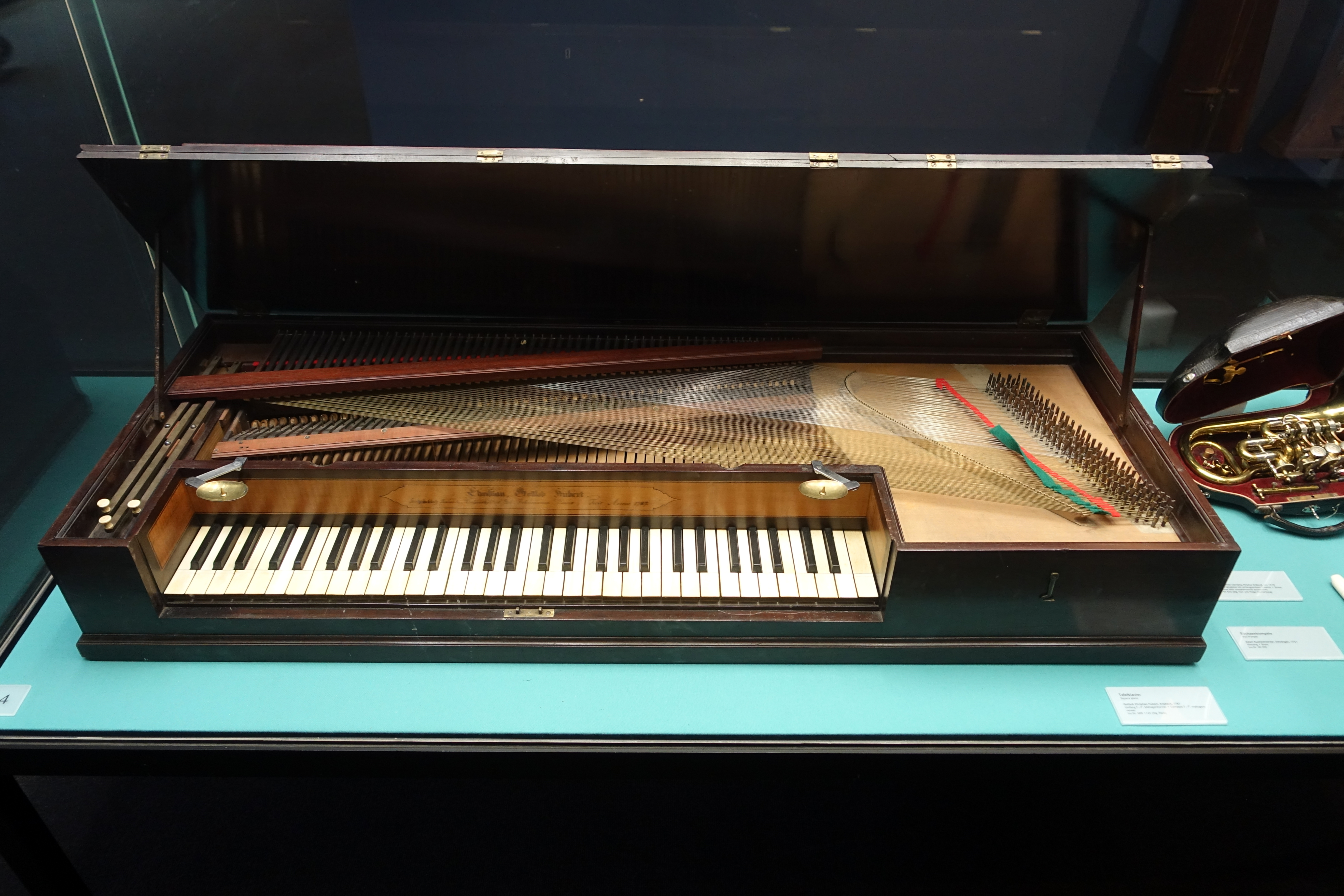 Exhibit in the Germanisches Nationalmuseum - Nuremberg, Germany.